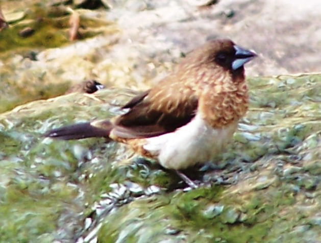 White-rumped Munia Lonchura striata